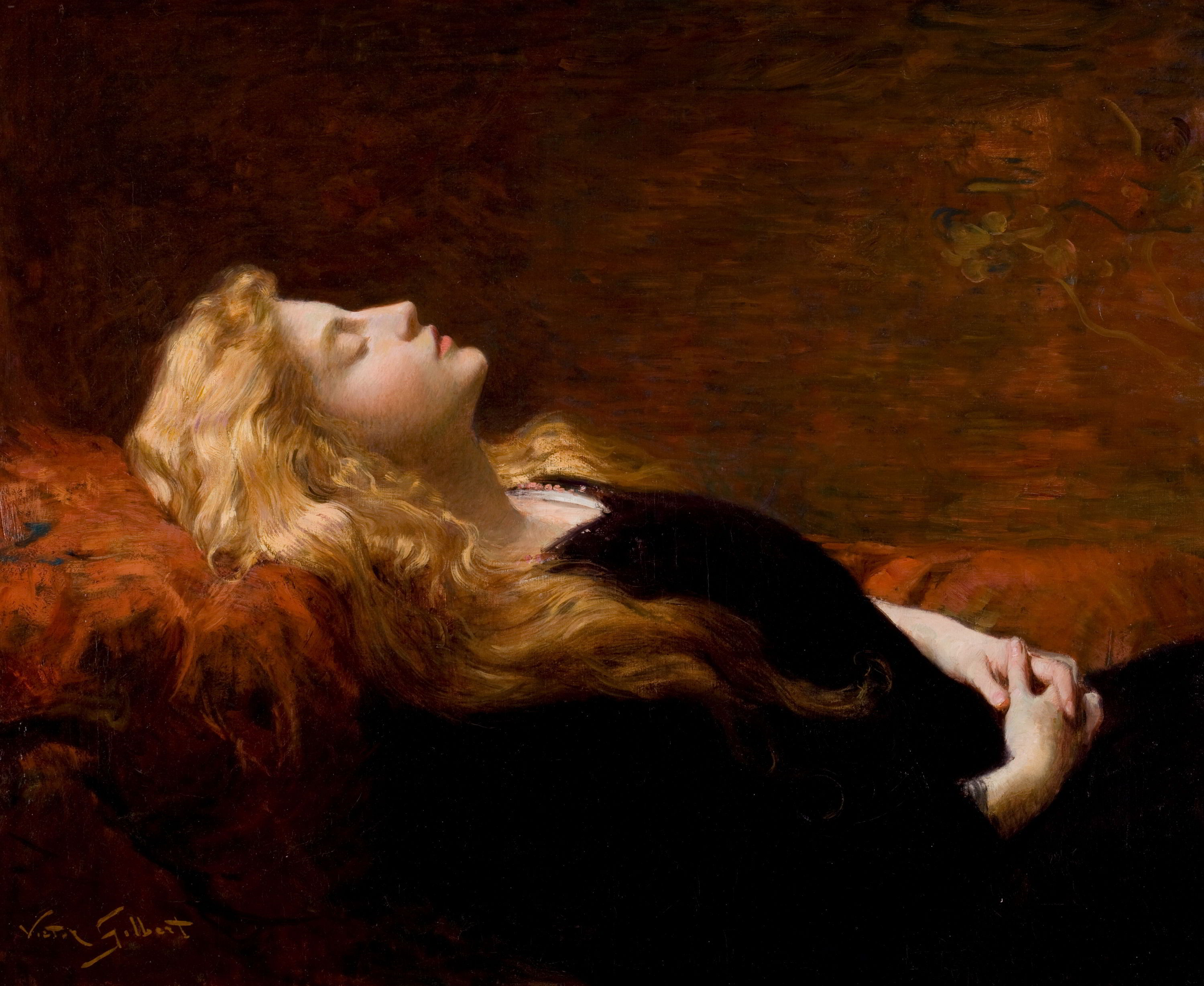 Resting by Victor Gabriel Gilbert Date is approximate.